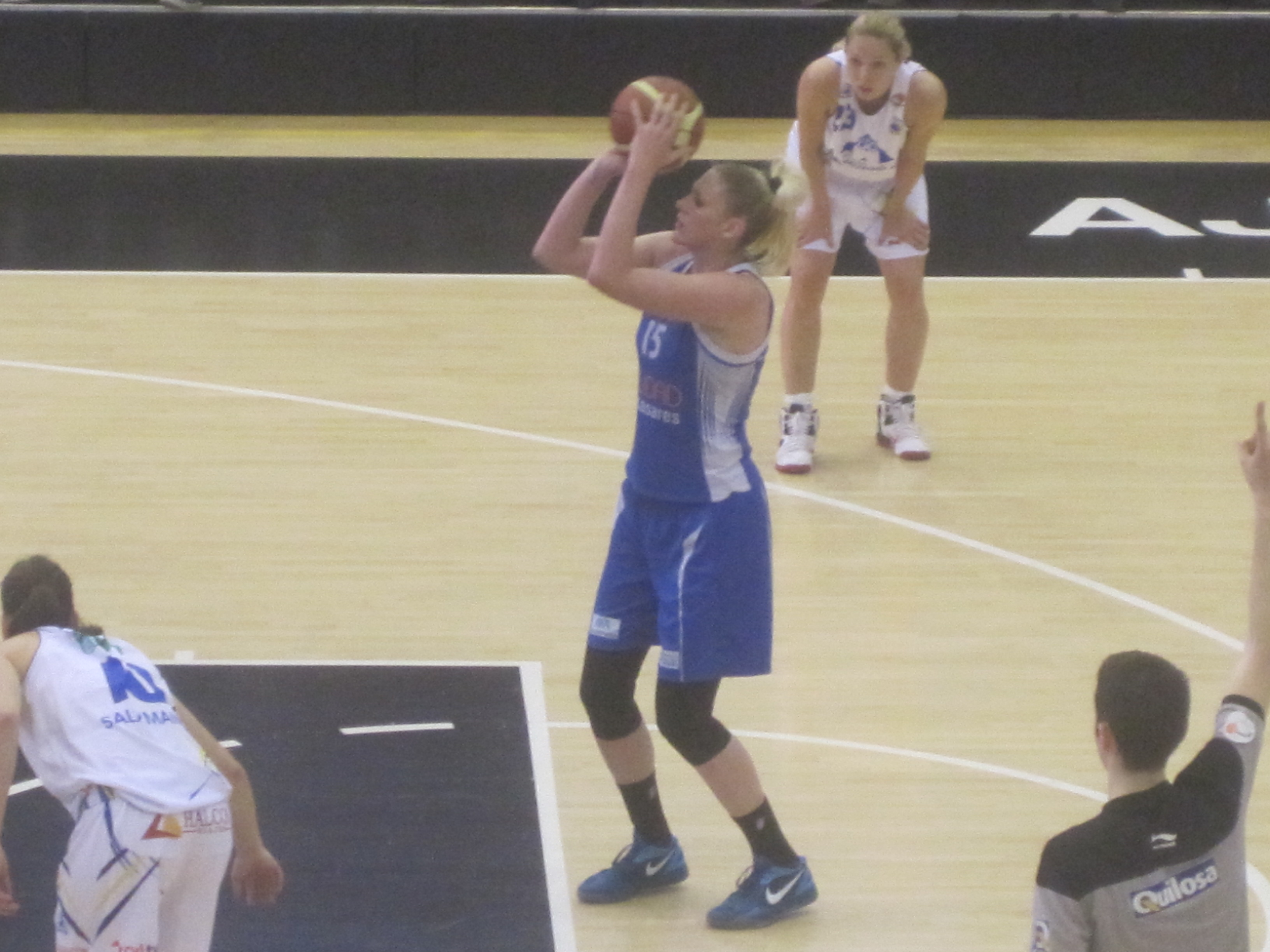 LAuren Jackson jugando con el Ros Casares.